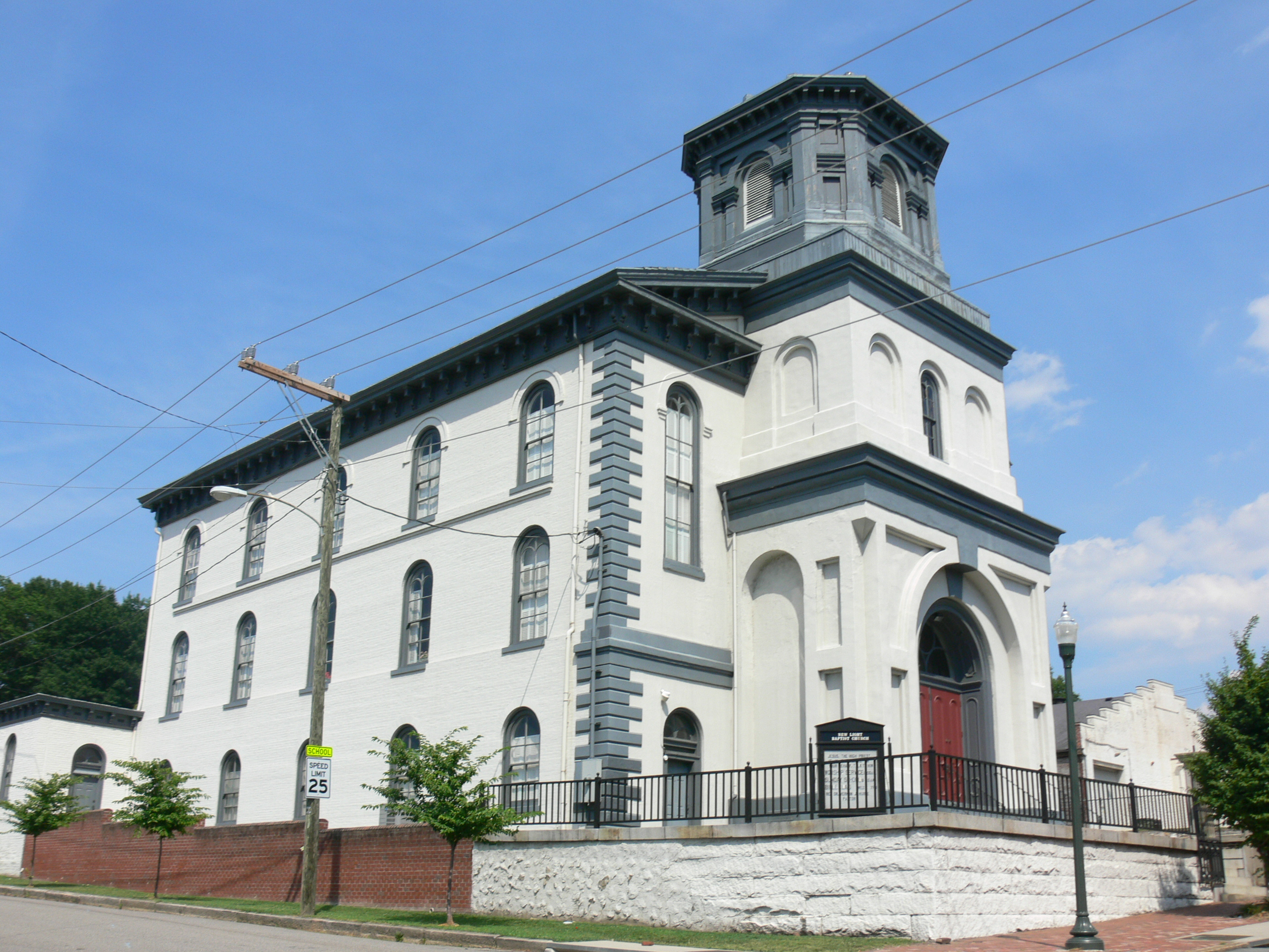 The former Trinity Methodist Church on Broad Street in Richmond, Virginia; on the National Register of Historic Places